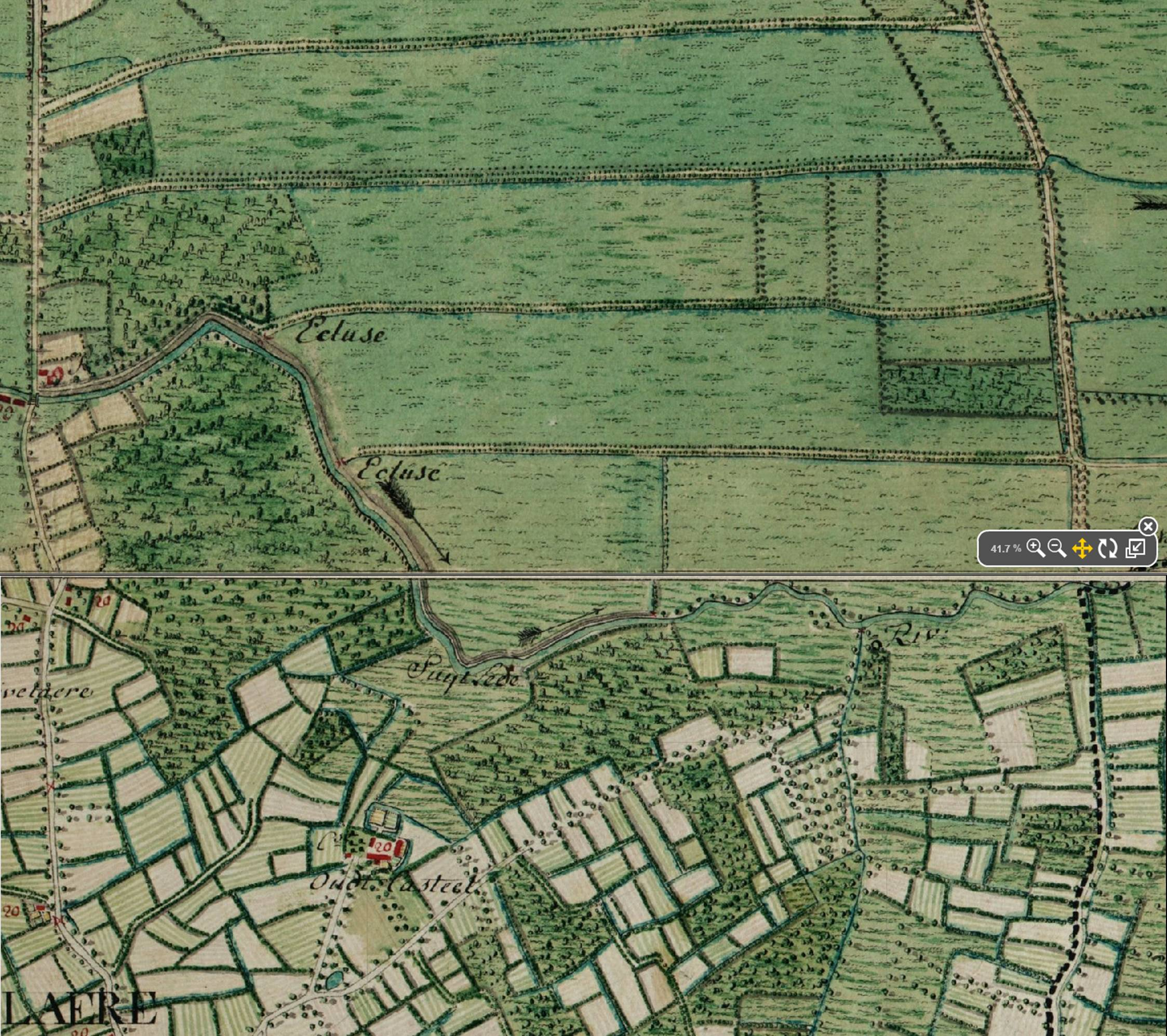 Puyenbroeck,_belgium_on_ferraris_map.jpg